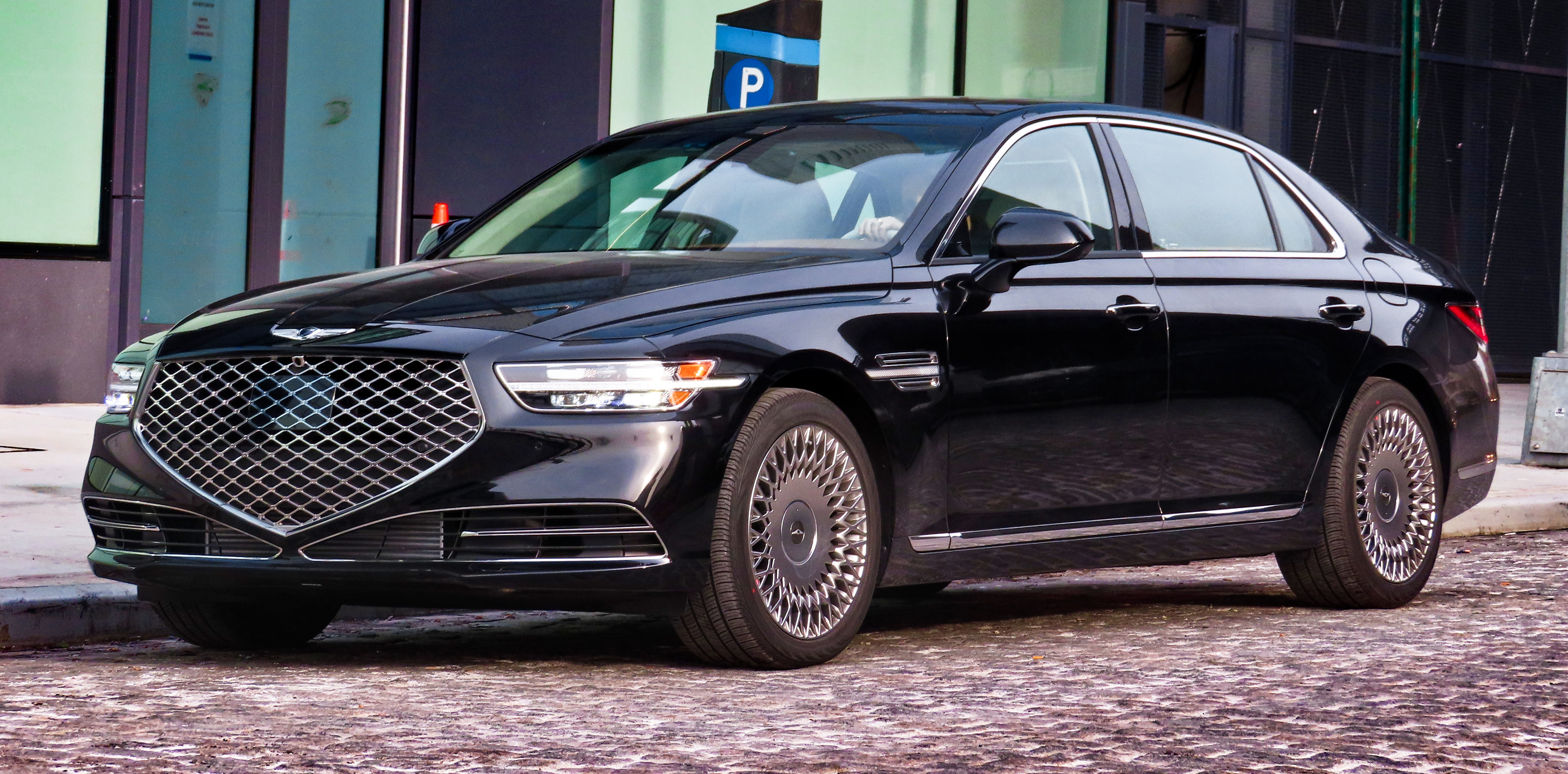 A 2020 Genesis G90 facelift photographed in Meatpacking District, Manhattan, New York, USA